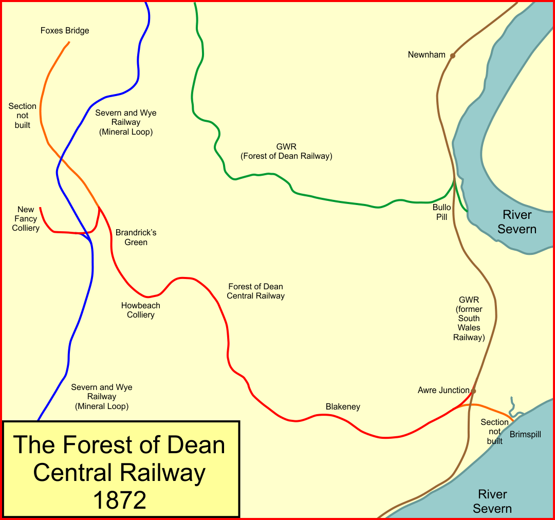 System map of the Forest of Dean Central Railway, Gloucestershire, England, in 1872